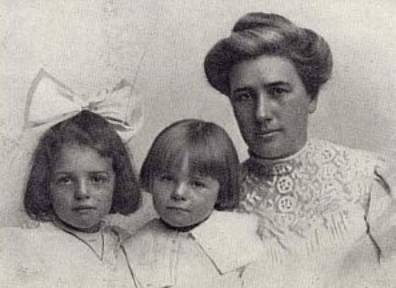 Elizabeth "Bessie" Maddern London, first wife of American author Jack London, with children Joan (b. 1901) and Bessie "Becky" (b. 1902) London